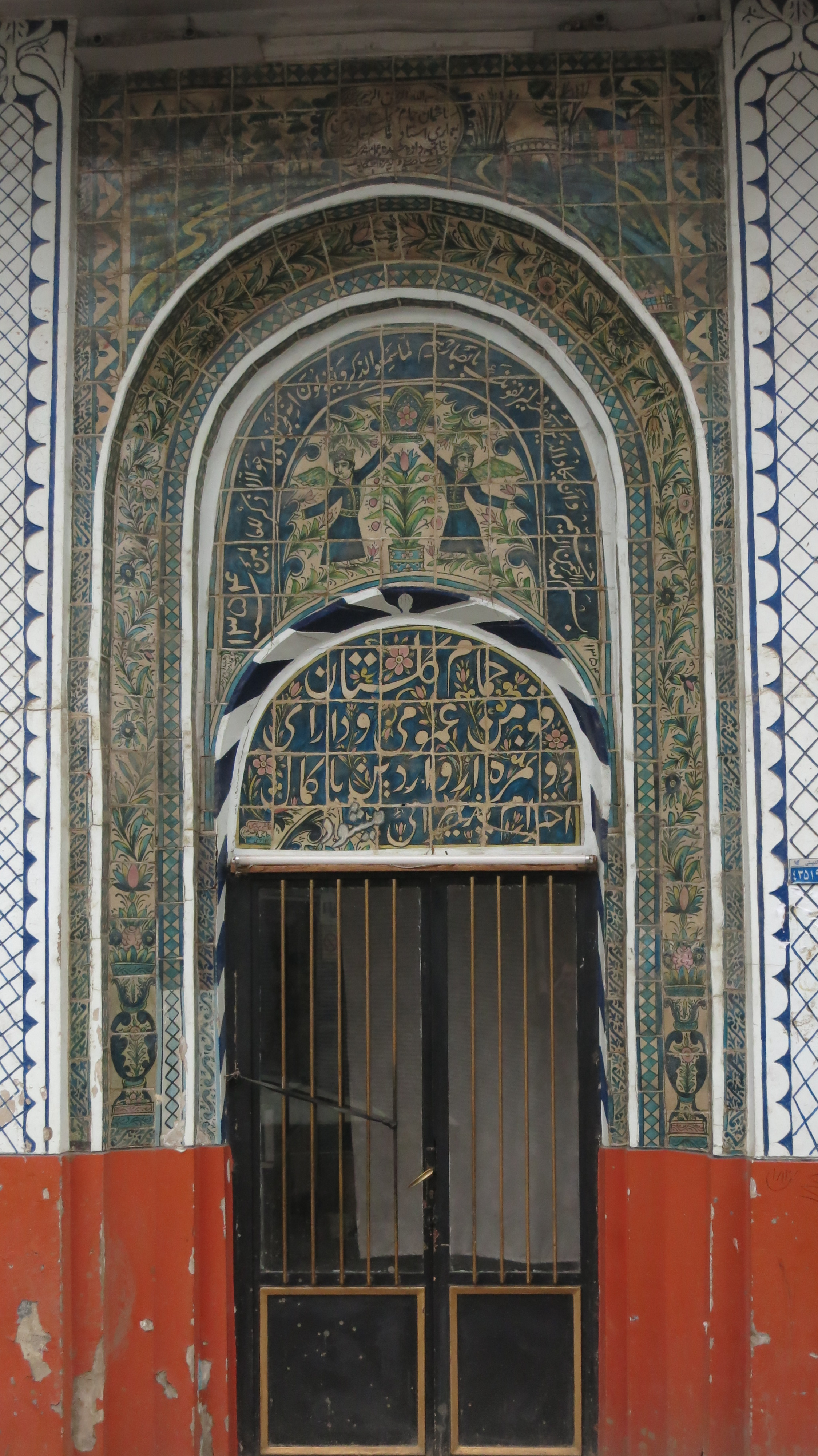 Public shower in Fouman